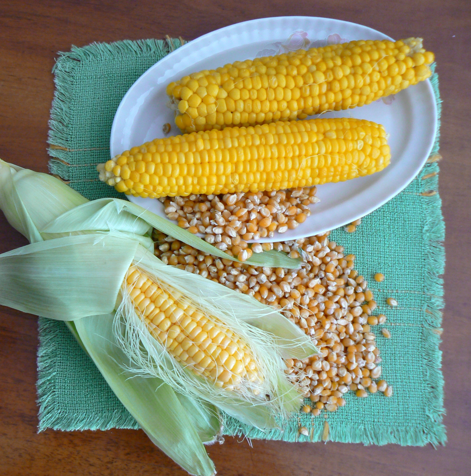 Corn: raw, boiled and dry on grains